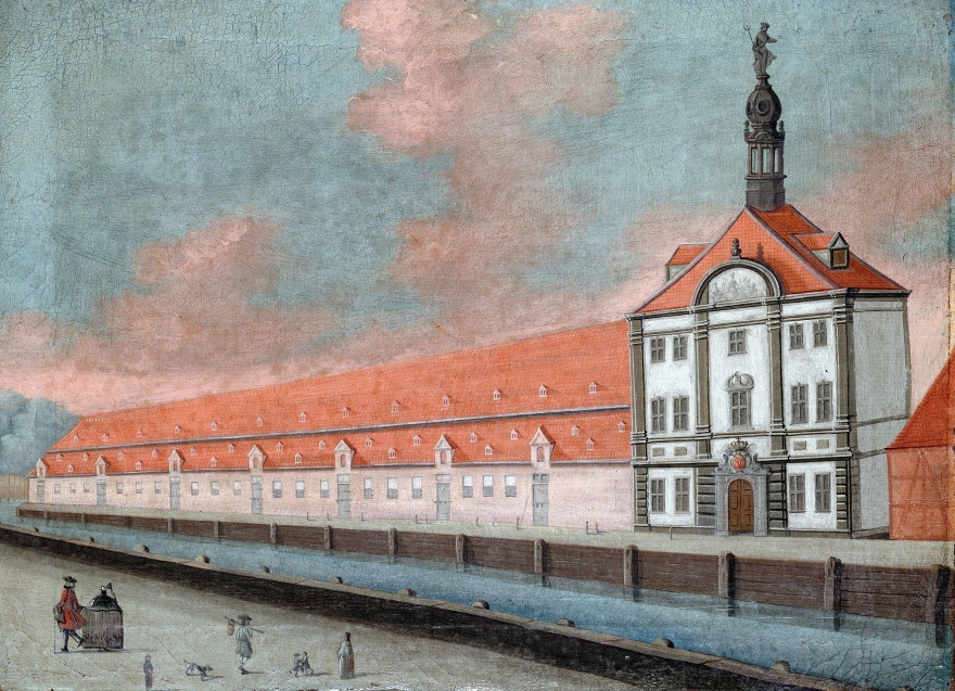 kongelige Takkelhus og den centrale port- og magasinbygning on Hammelholm in Copenhagen, Denmark